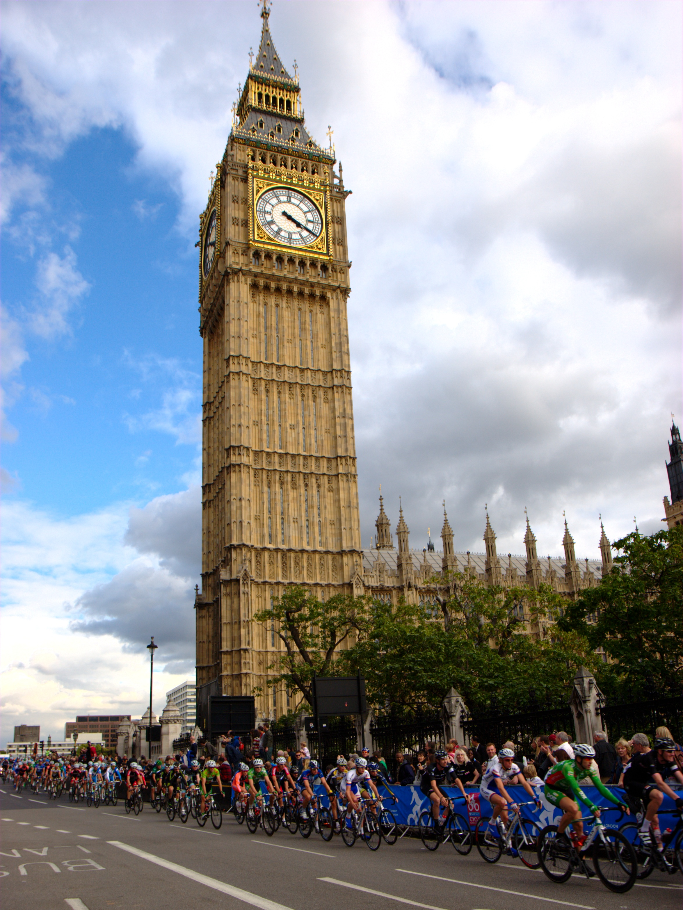 The Tour of Britain peloton cruises in front of Big Ben in stage 8b.